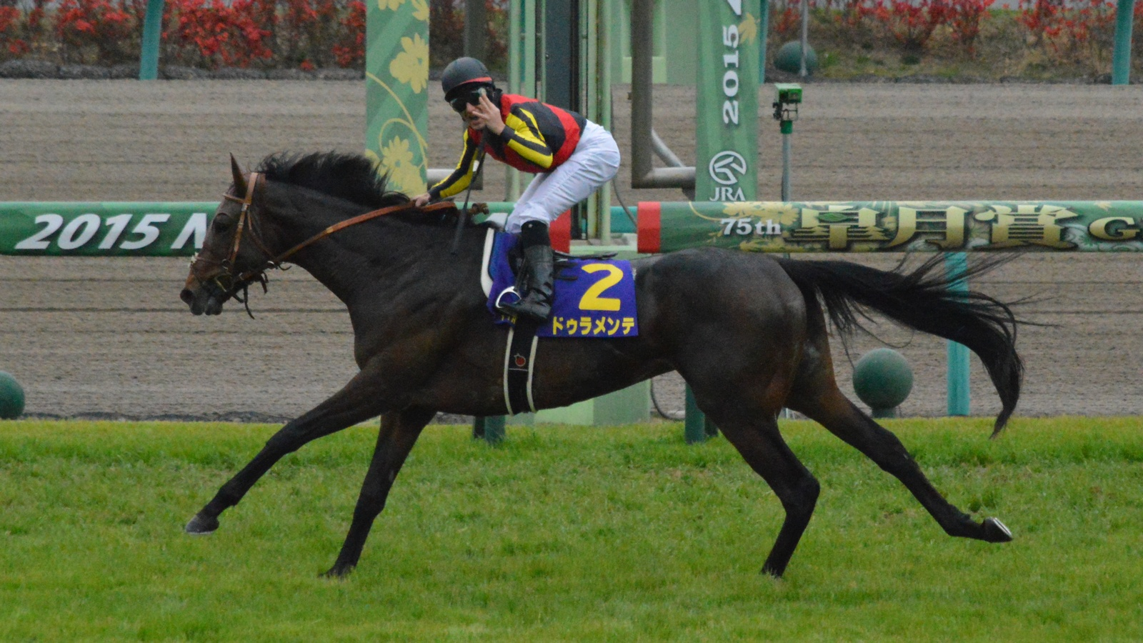 Japanese race horse Duramente at Nakayama racecourse. Nakayama (JPN) 19 Apr 2015 Satsuki Sho (Japanese 2000 Guineas) (Grade 1) (3yo Colts & Fillies) (Turf) Firm RankHorse NameOddsAgeWgtJockeyTrainer1stDuramente (JPN)18/5C39-0Mirco DemuroNoriyuki Hori2ndReal Steel (JPN)14/5C39-0Yuichi FukunagaYoshito Yahagi3rdKitasan Black (JPN)87/10C39-0Suguru HamanakaHisashi Shimizu4th - 15th/omission